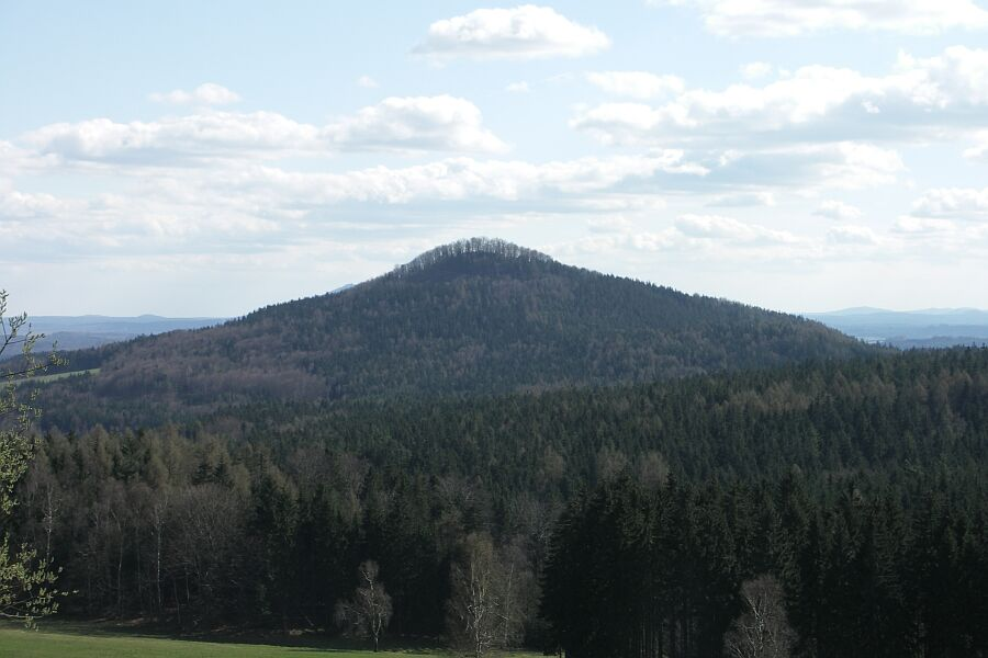 Sokol mountain, Lusatian Maoutains, Czech Republic